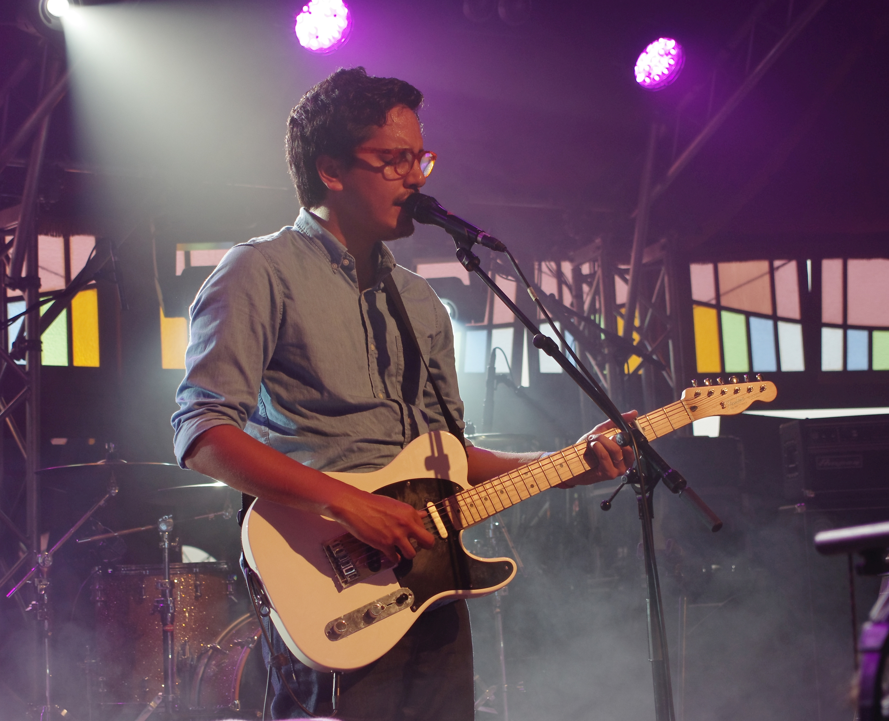 Luke Sital-Singh performing at Haldern Pop Festival 2014.